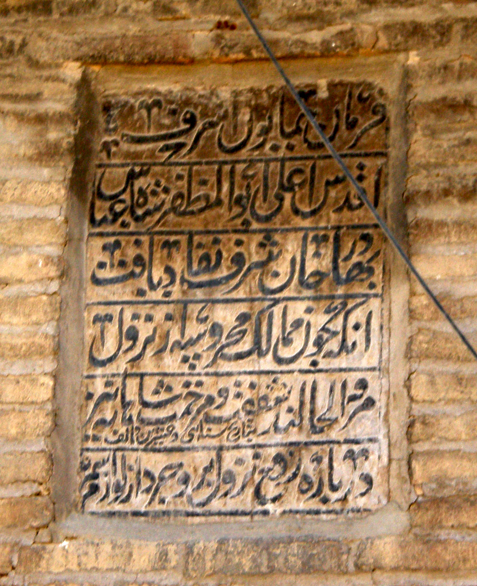 Persian stone engrave above the west entrance of Jame Mosque of Borujerd. It's date is 1022 in Islamic lunar calendar indicating Safavid era.